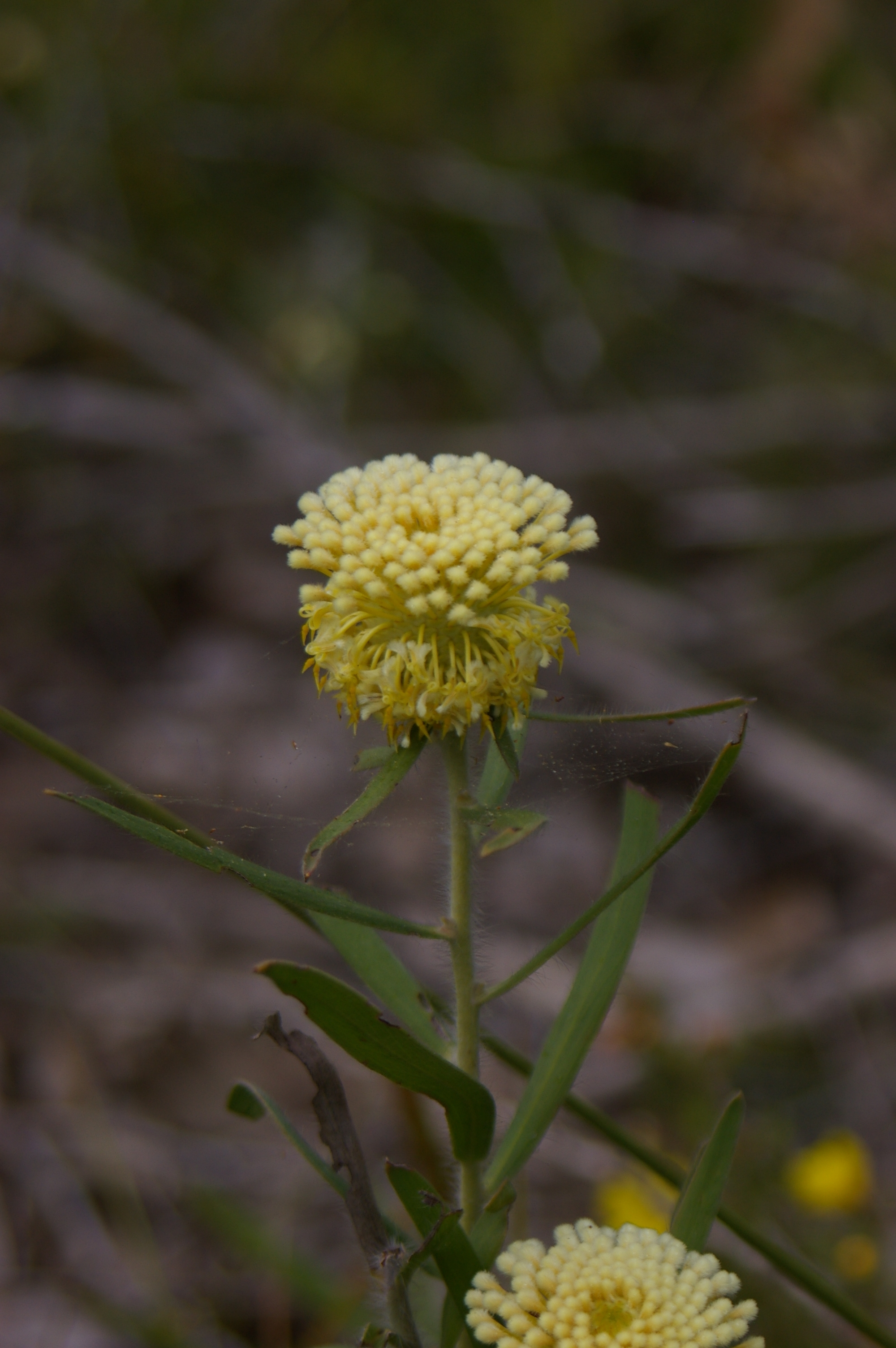 Isopogon sphaerocephalus photographed in the John Forrest National Park